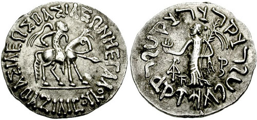 Coin of the Indian-Scythian king Artemidoros Azilises.